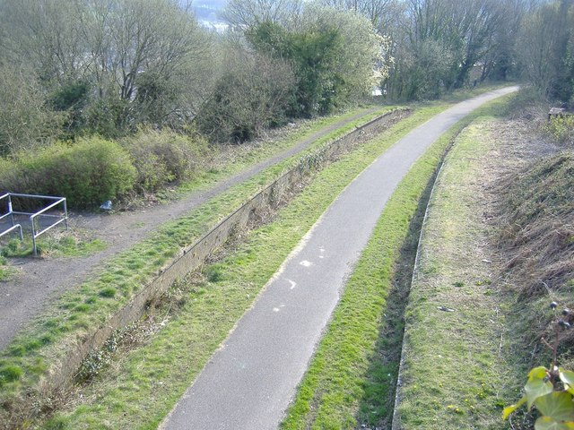 Abandoned railway station, Pentre-Piod Road Now host to a cycleway.